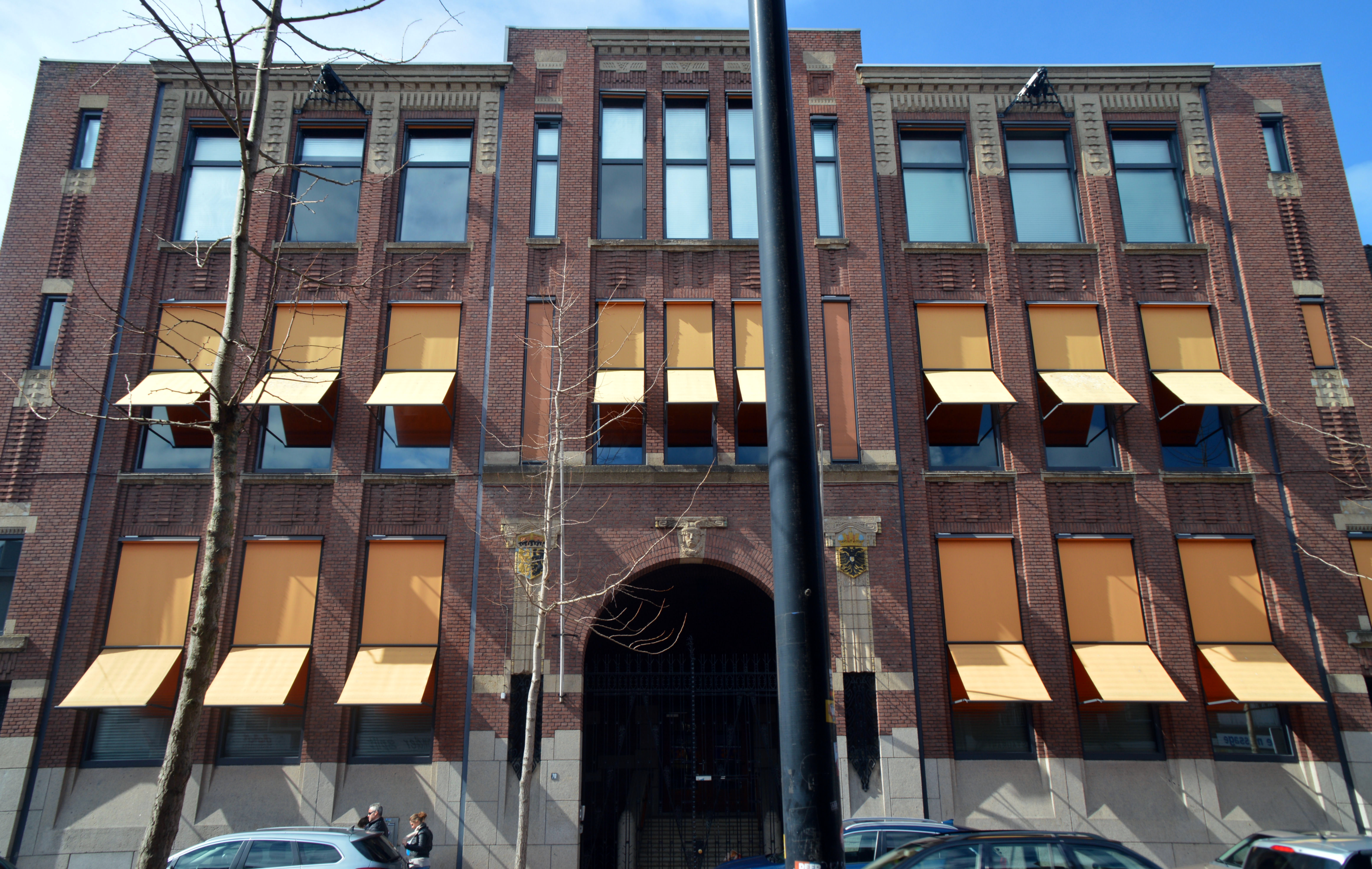 Nijmeegsche Bankvereeniging Van Engelenburg & Schippers at the Hertogstraat in Nijmegen Oscar Leeuw Art Nouveau